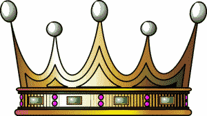 Coronet of a French Vicomte (viscount).